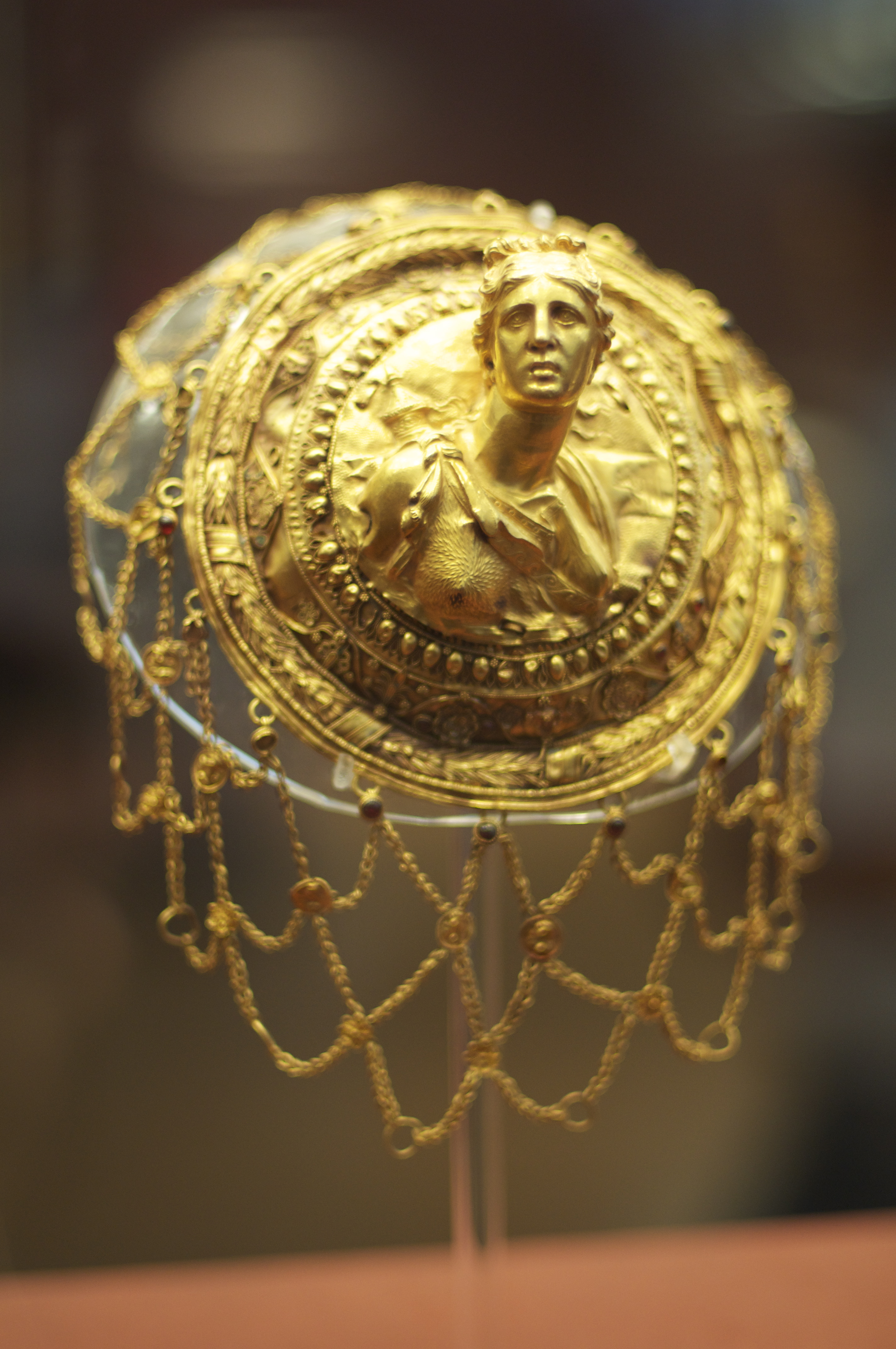 from Stathatos collection